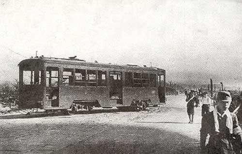 Streetcar of Hiroshima Electric Railway, destroyed by the atomic bombing on August 6, 1945. The car (#651) was later restored.